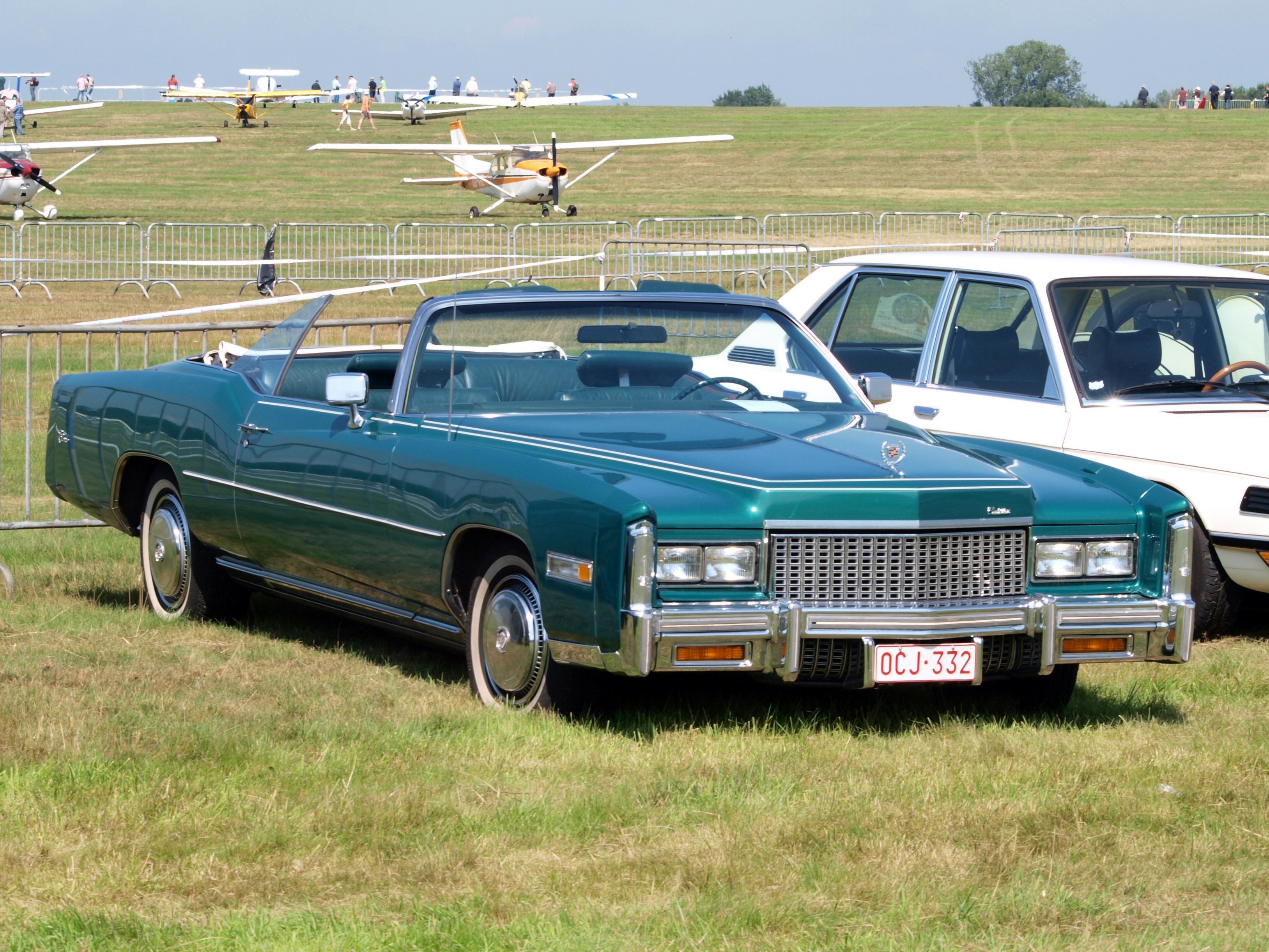 Photographed at The International Oldtimer Fly and Drive In 2010, Schaffen-Diest, Belgium.